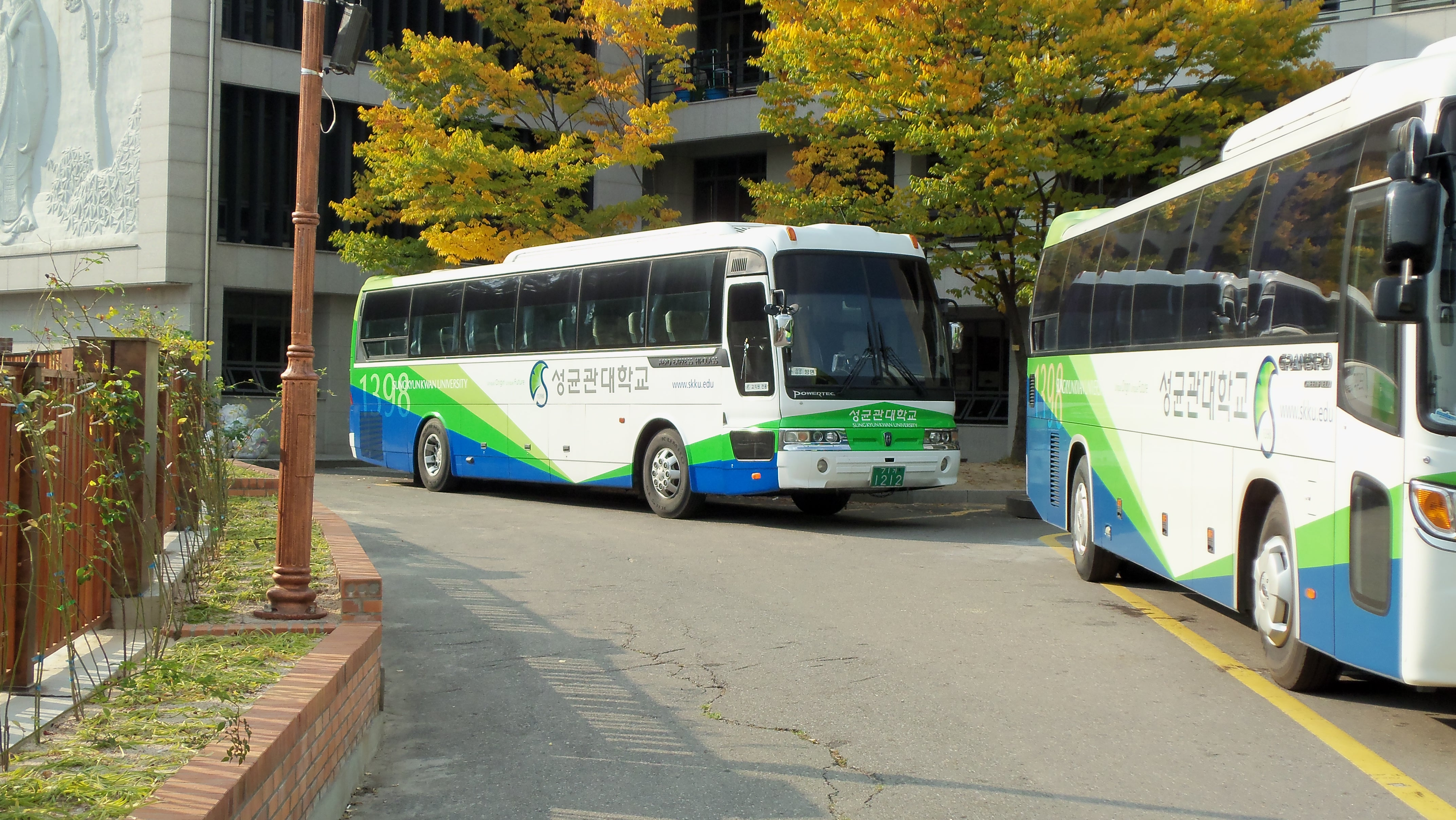 SKKU Buses in front of Student Center.